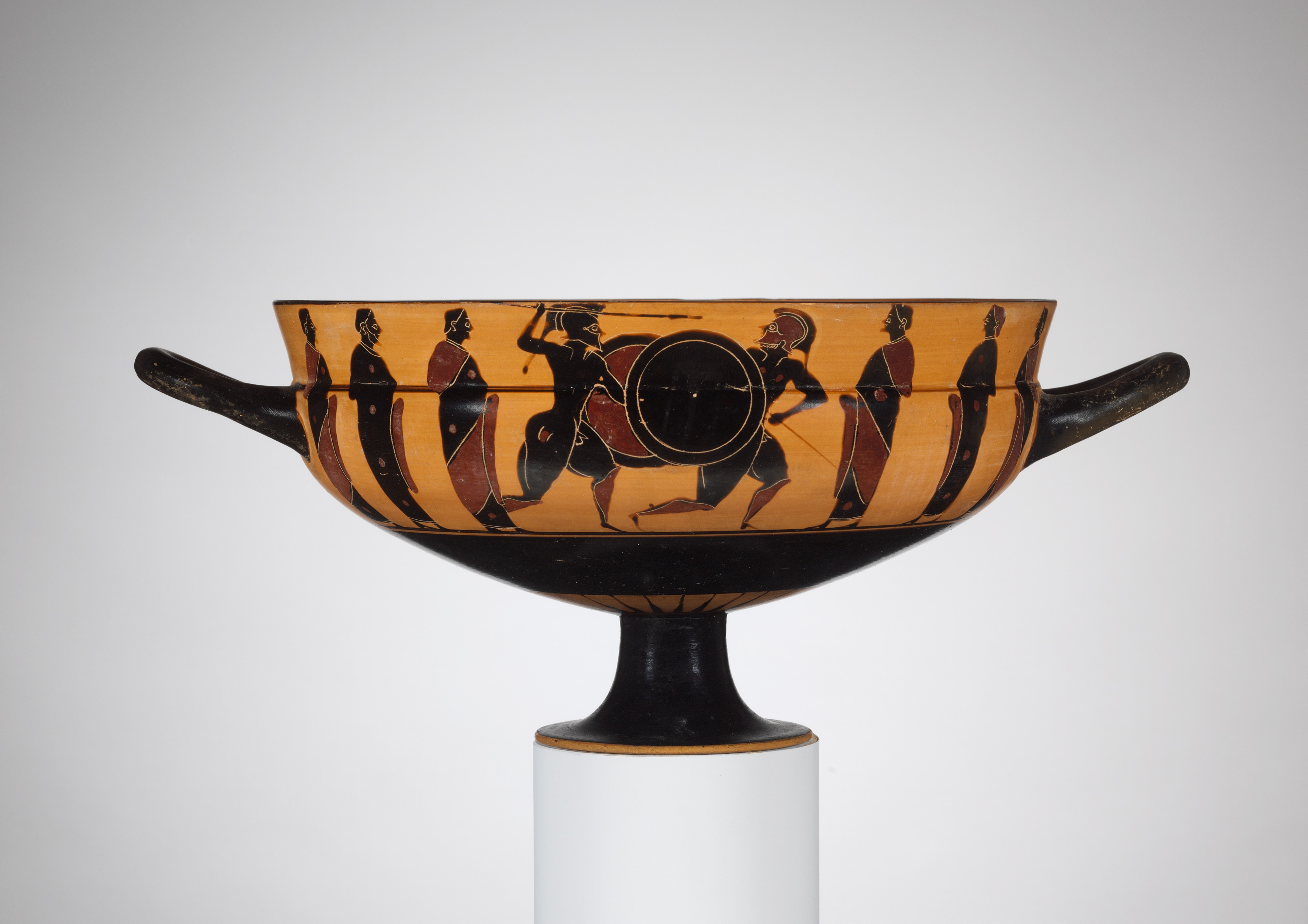 Greek, Attic; Kylix, Siana cup; Vases